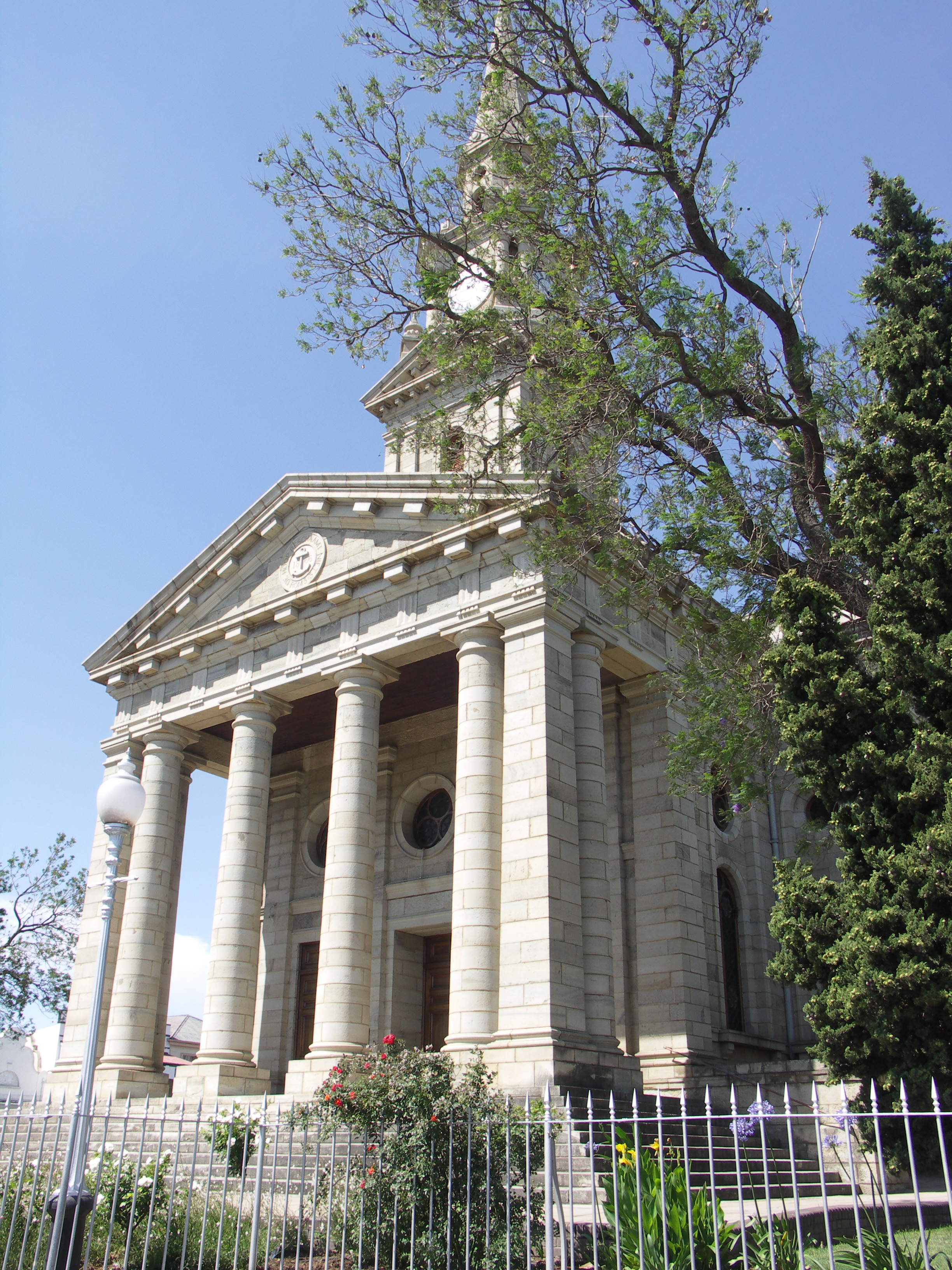 The Dutch Reform Church in Cradock